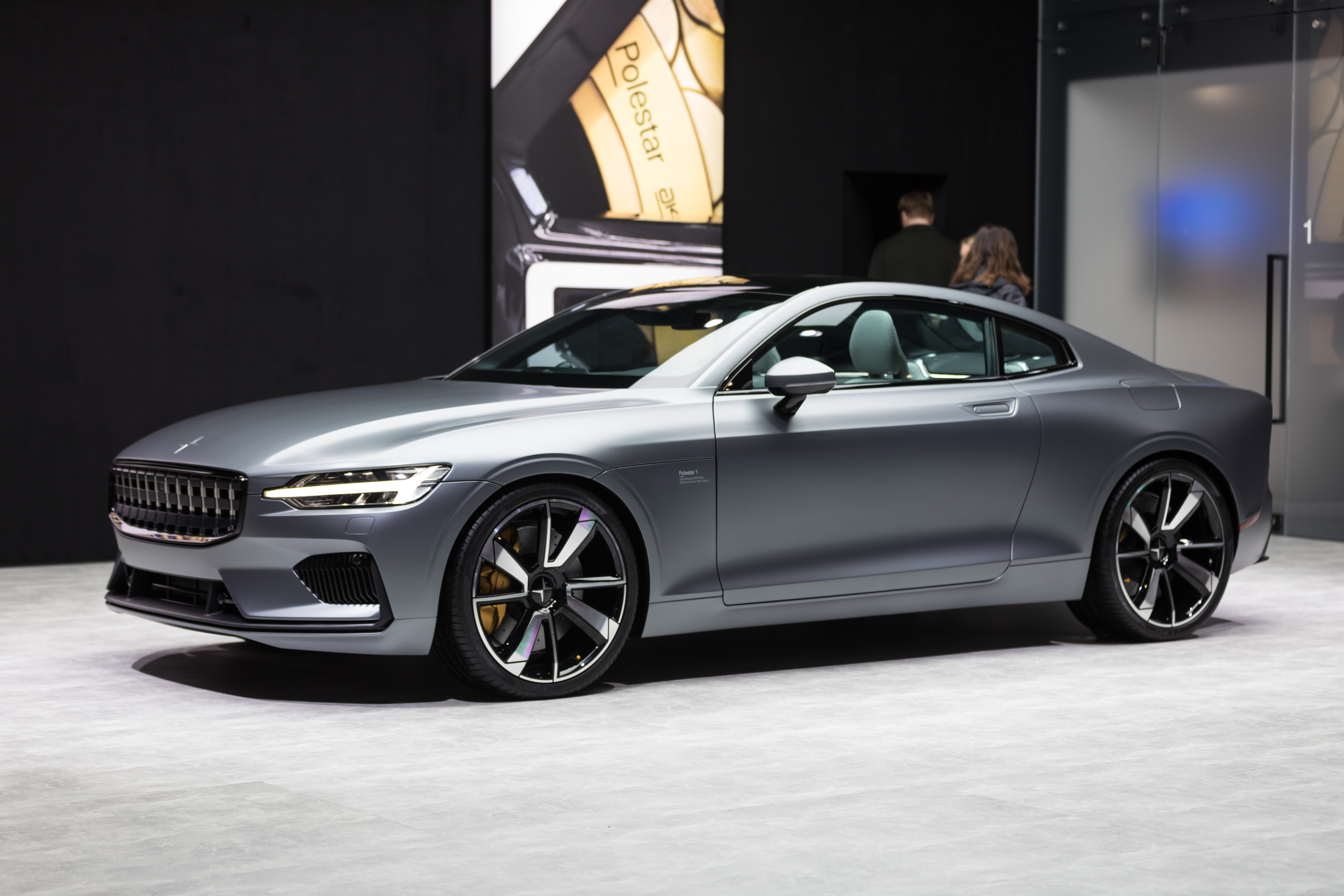 Geneva International Motor Show 2018, Polestar 1